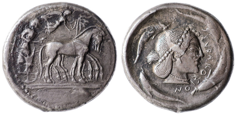 Tetradrachm from Sicily, Syracuse, dated 485-479 BC